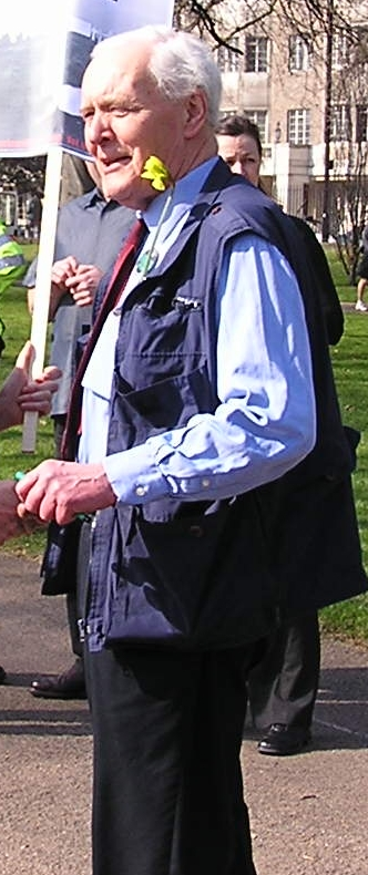 Photo of Tony Benn On anti-war demo in London 19/03/05 Taken by JK the Unwise who gives it the following license